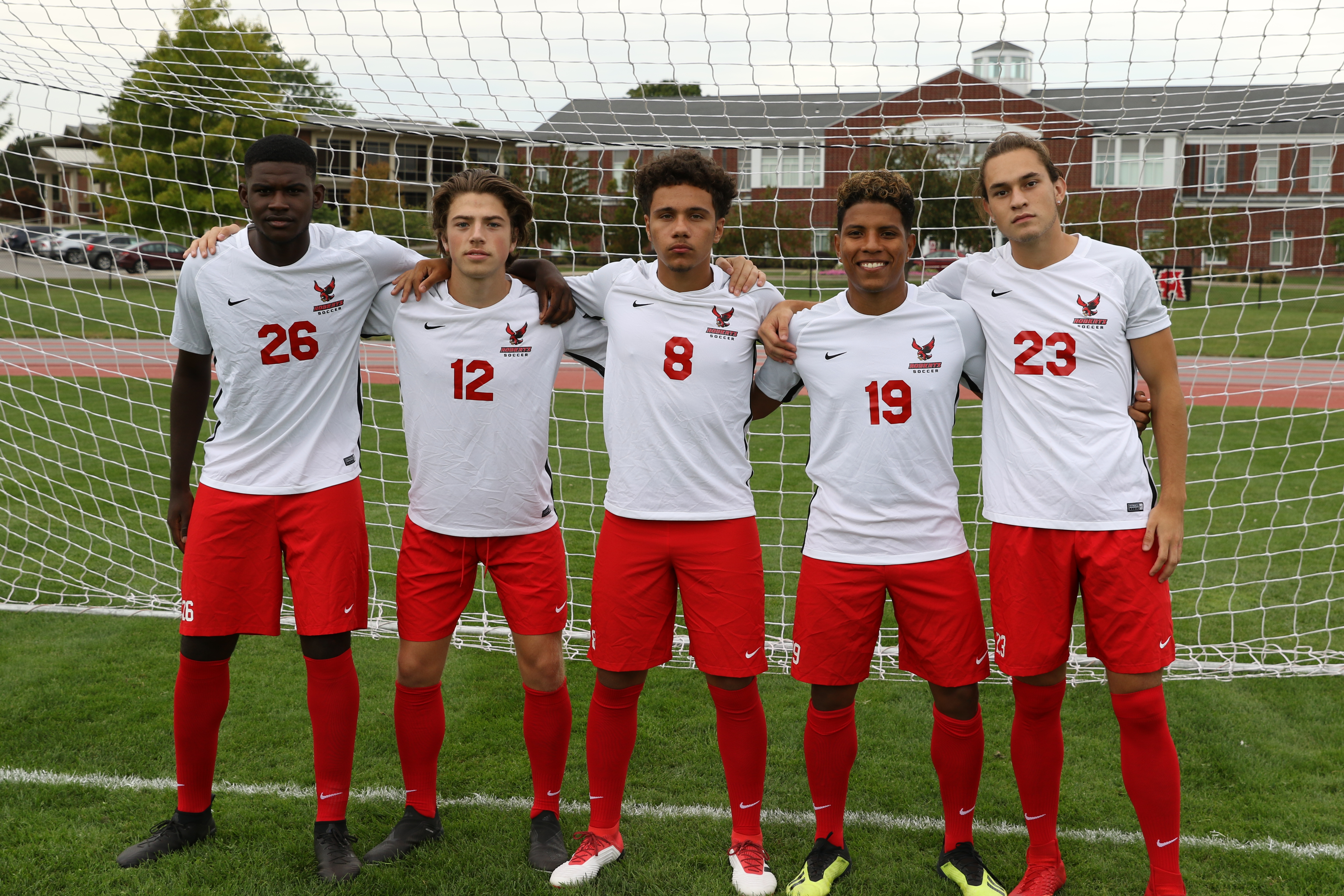 Roberts Wesleyan Men's Soccer Team